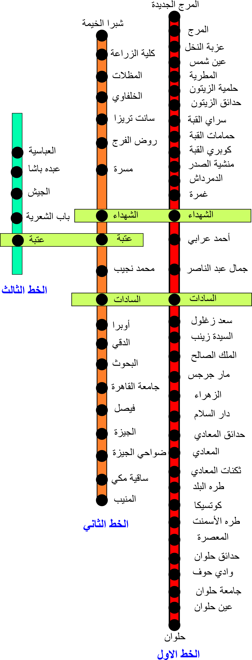 Cairo Metro Stations (Egypt) for the first and second lines in arabic